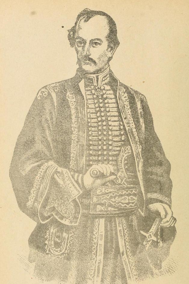 Jevrem Obrenovic